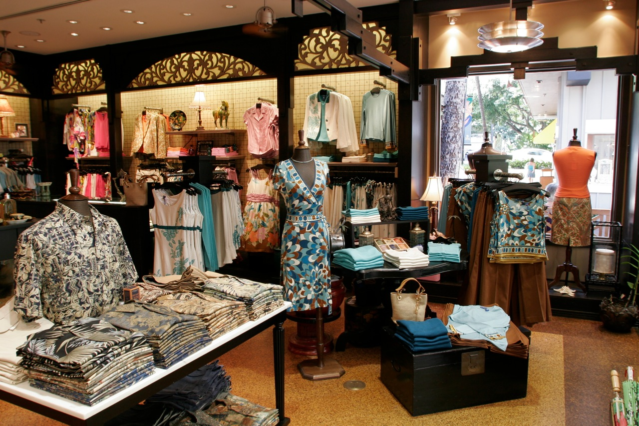 The Tori Richard store in Hilton Hawaiian Village, Waikiki